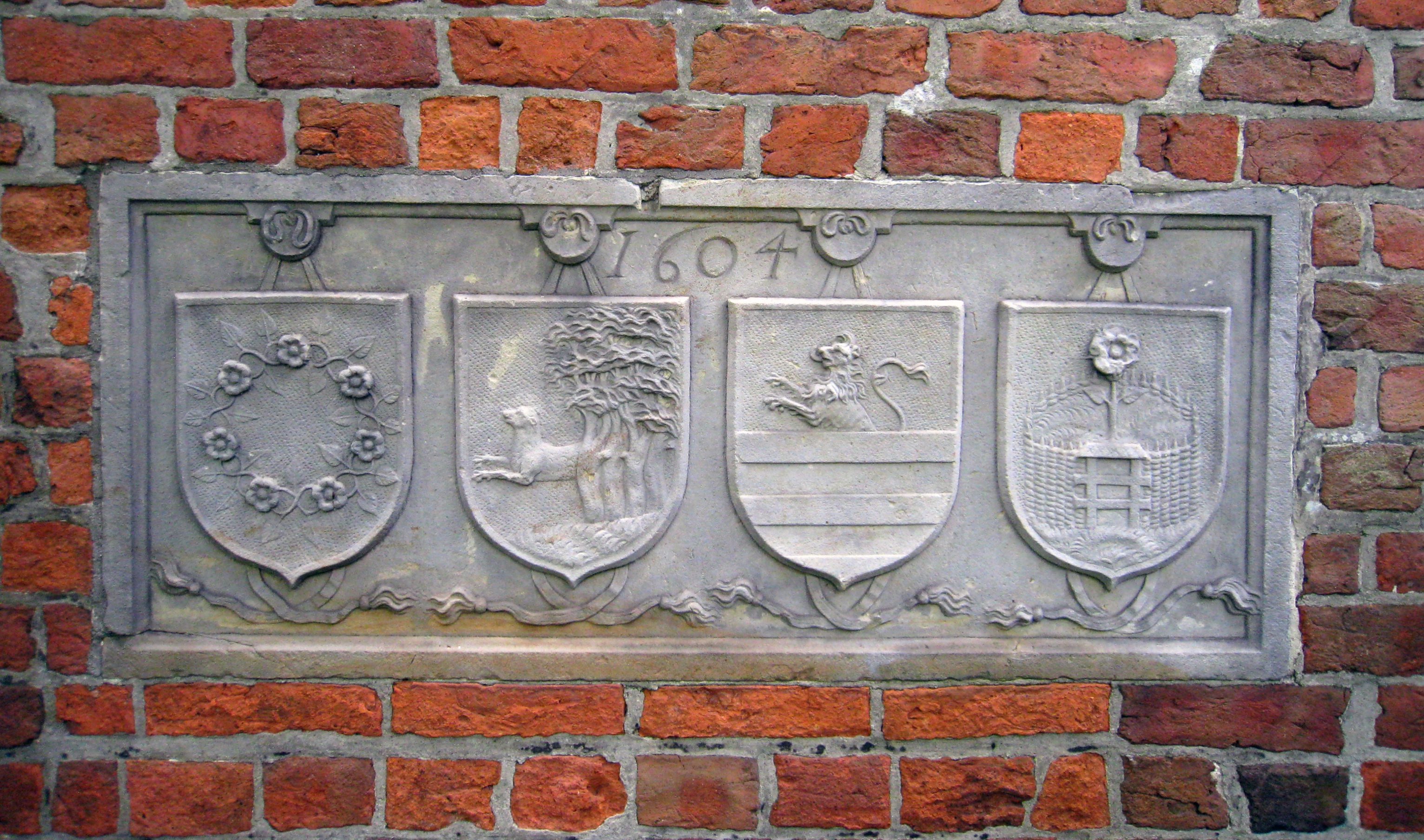 Relief stone from the year 1604 at the tower Ole Kark (the “Old Church”) in Bremen-Blumenthal, Germany, with the coat of arms of the four mayors from Johann Esich, Heinrich Zobel, Daniel von Büren und Henrich Houken.